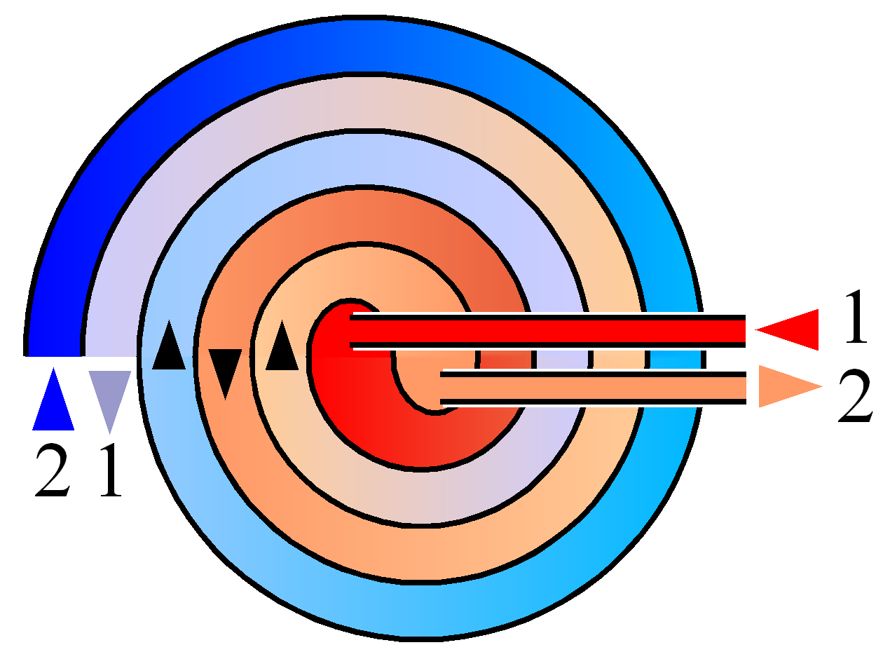 Schematic drawing of a spiral heat exchanger